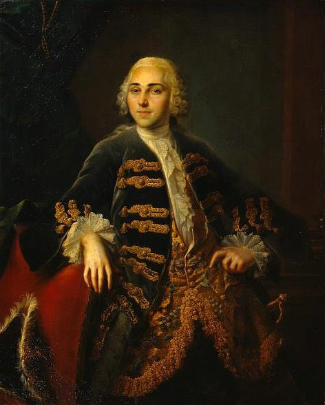 Portrait of Nikita A. Demidoff (1724-1786)